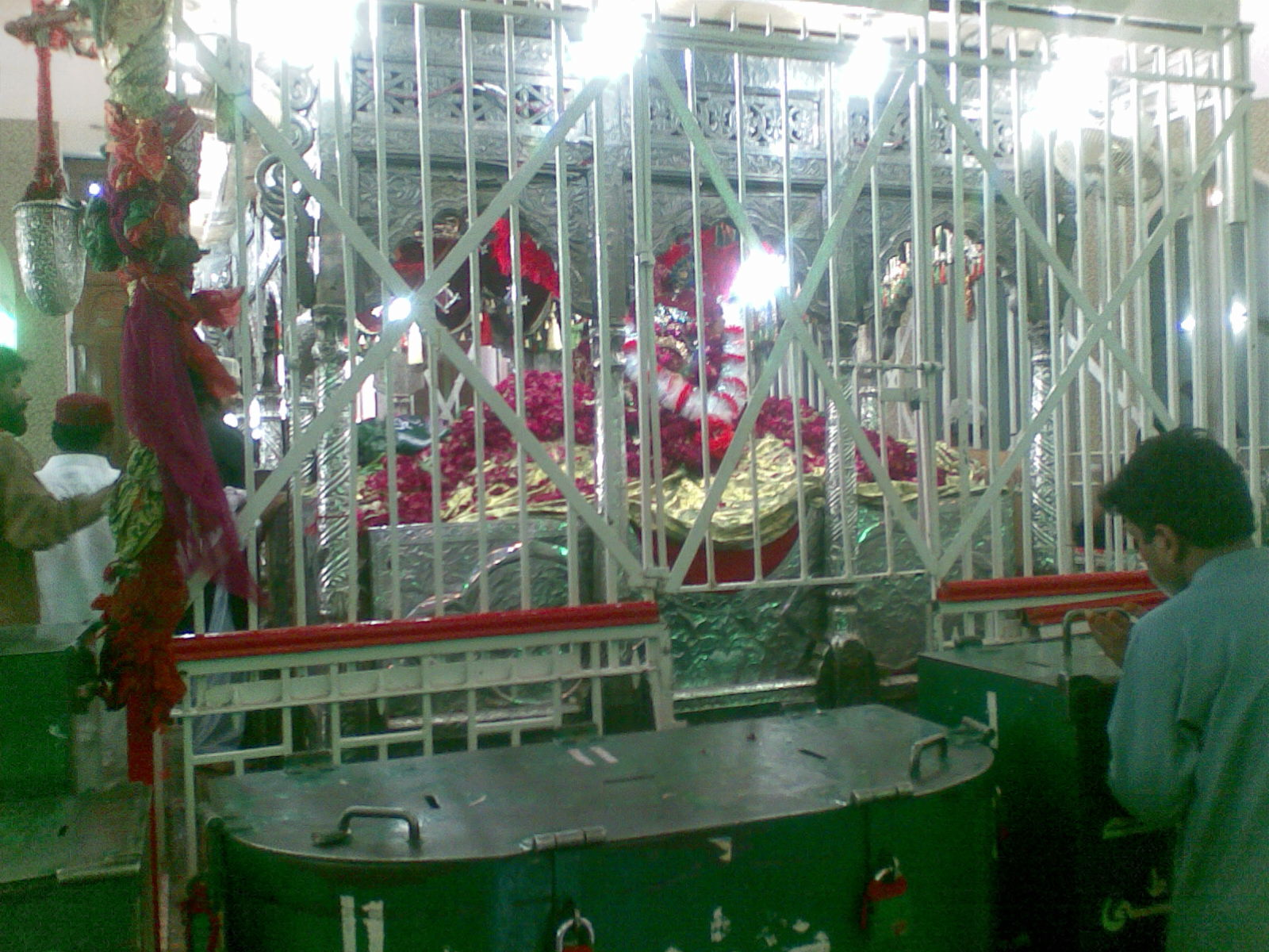 Shrine of Lal Shahbaz Qalander